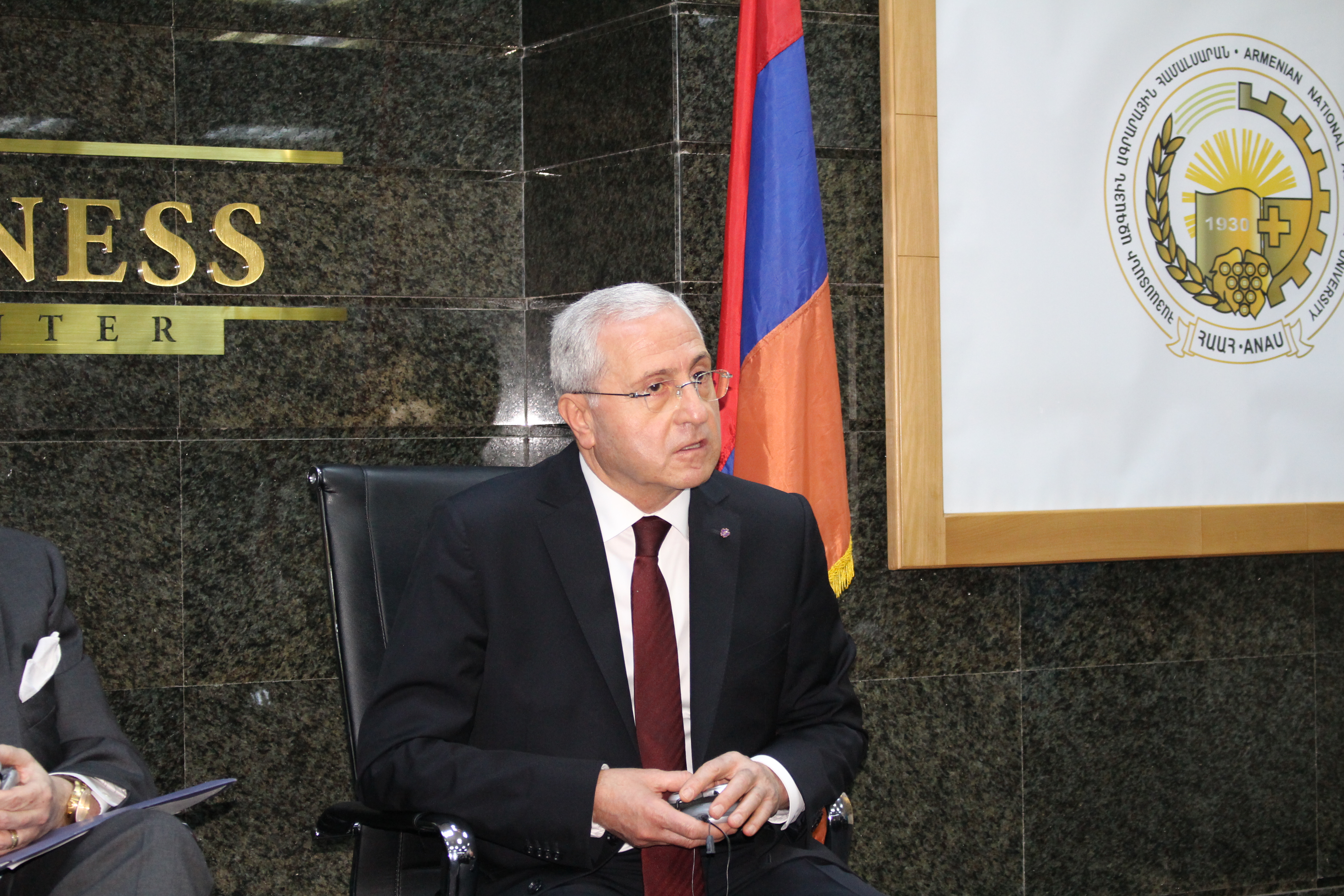 Former minister of Agriculture Sergo Karapetyan in Agribusiness Teaching Center.